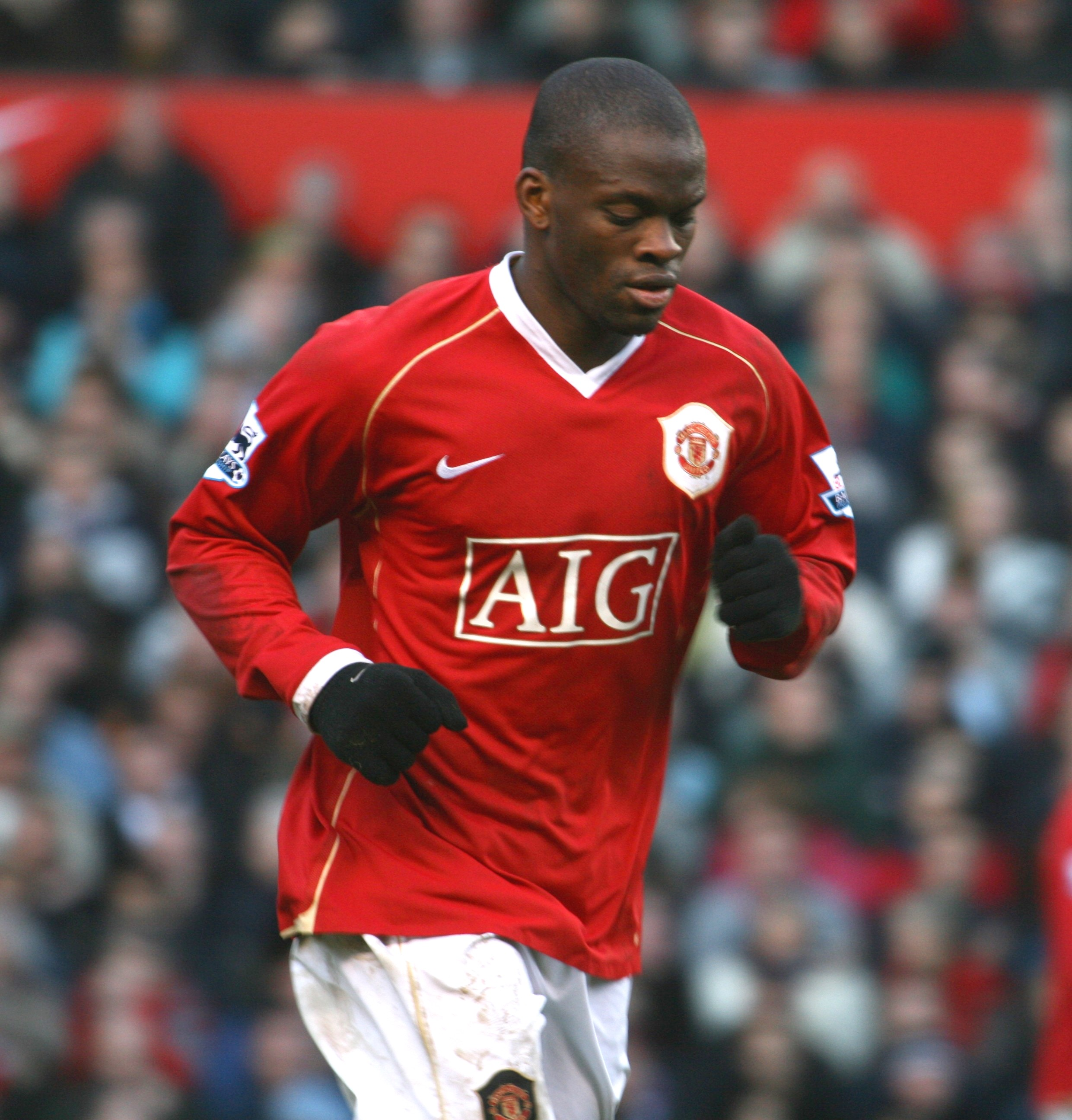 Louis Saha playing for Manchester United F.C.